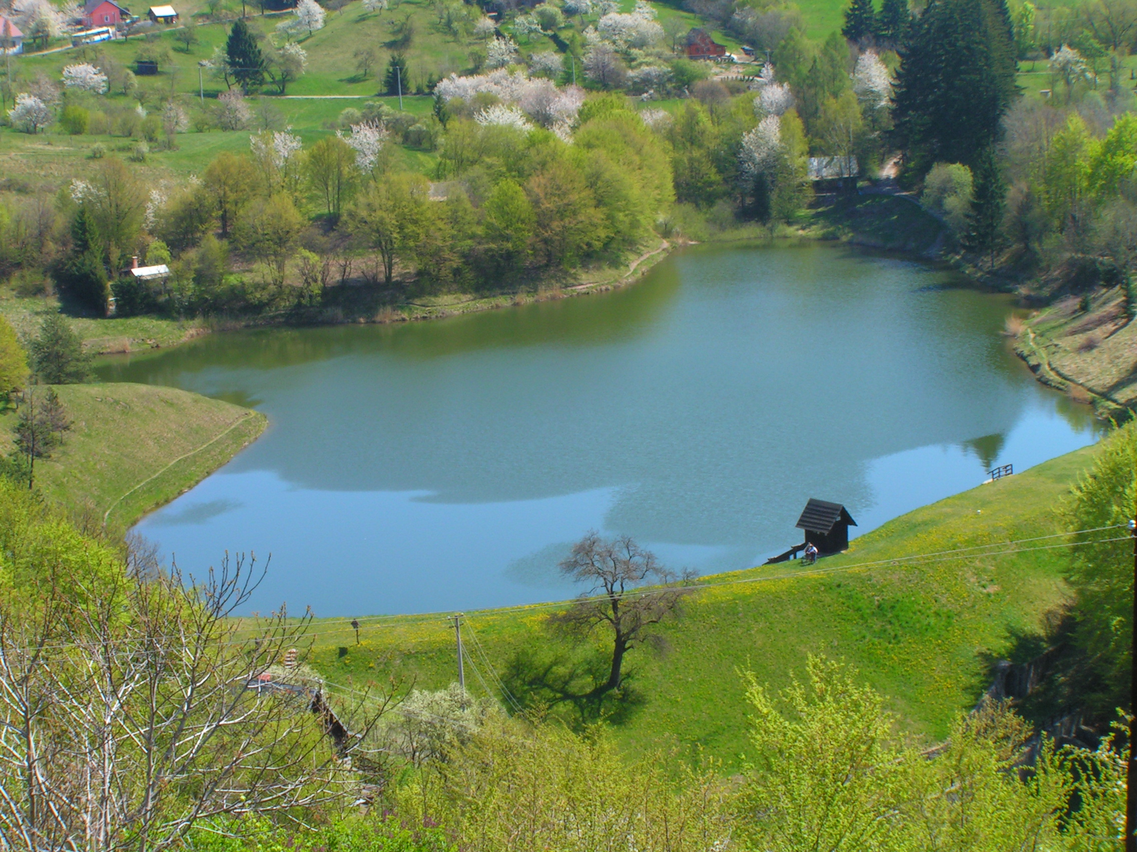 View to Moderstolniansky Teich water reservoir after general reconstriction. Wiew from Baniste hill.